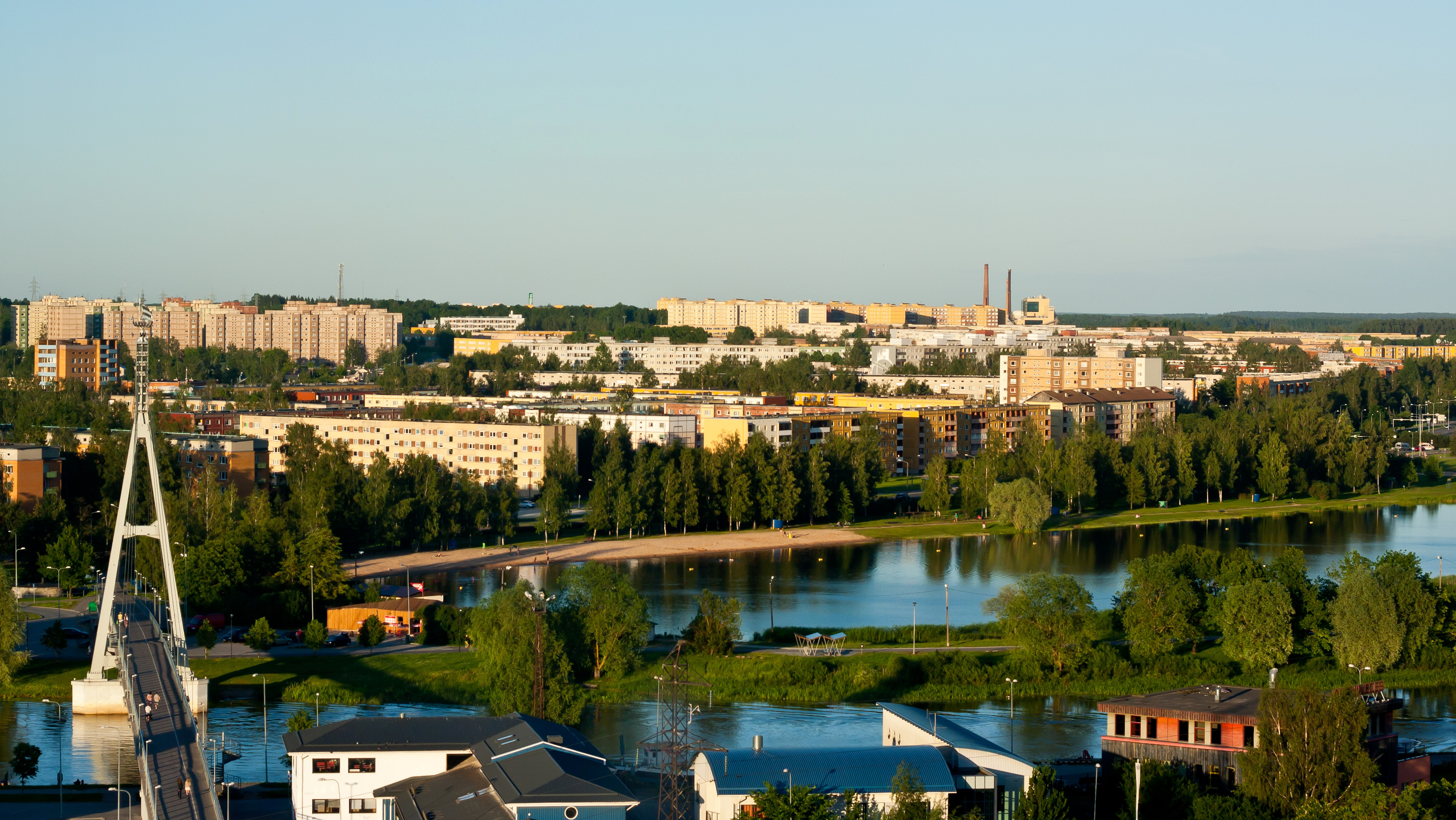 District of Annelinn in Tartu, Estonia. View from city center.